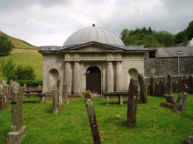 The Johnstone Mausoleum, Bentpath. This Mausoleum was built by Robert Adam in 1790 and is located in the churchyard which is also the last resting place of Thomas Telford's father.